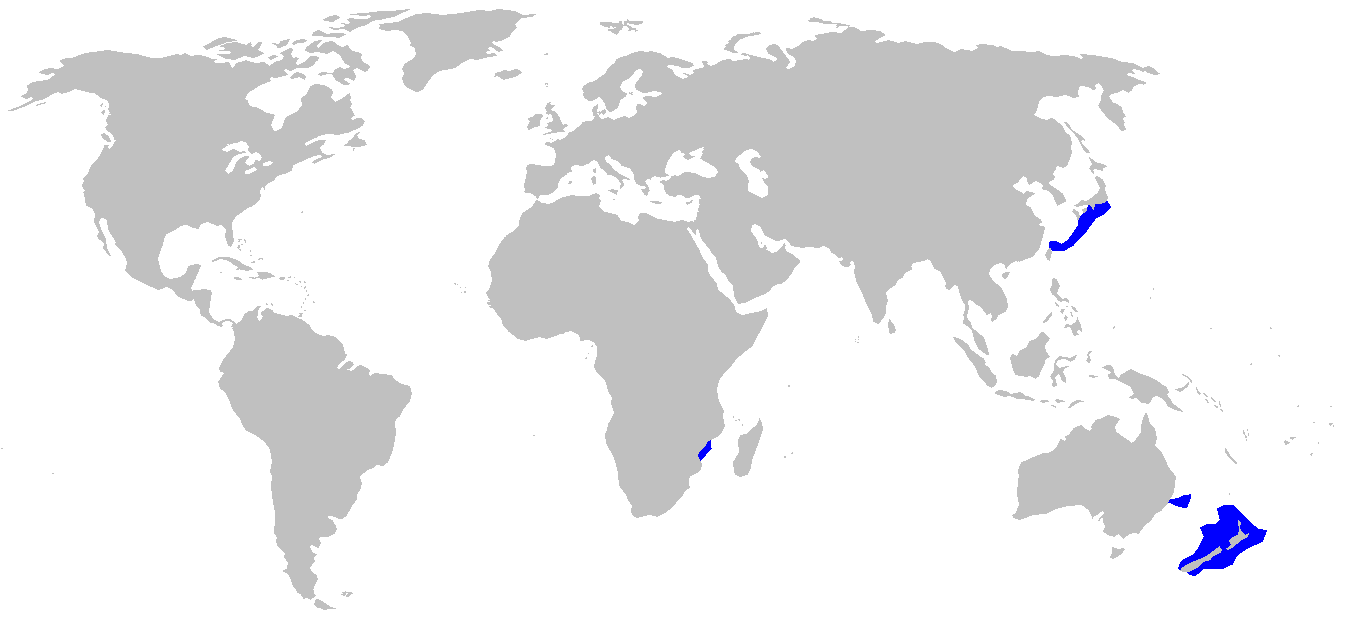 Distribution map for Etmopterus molleri